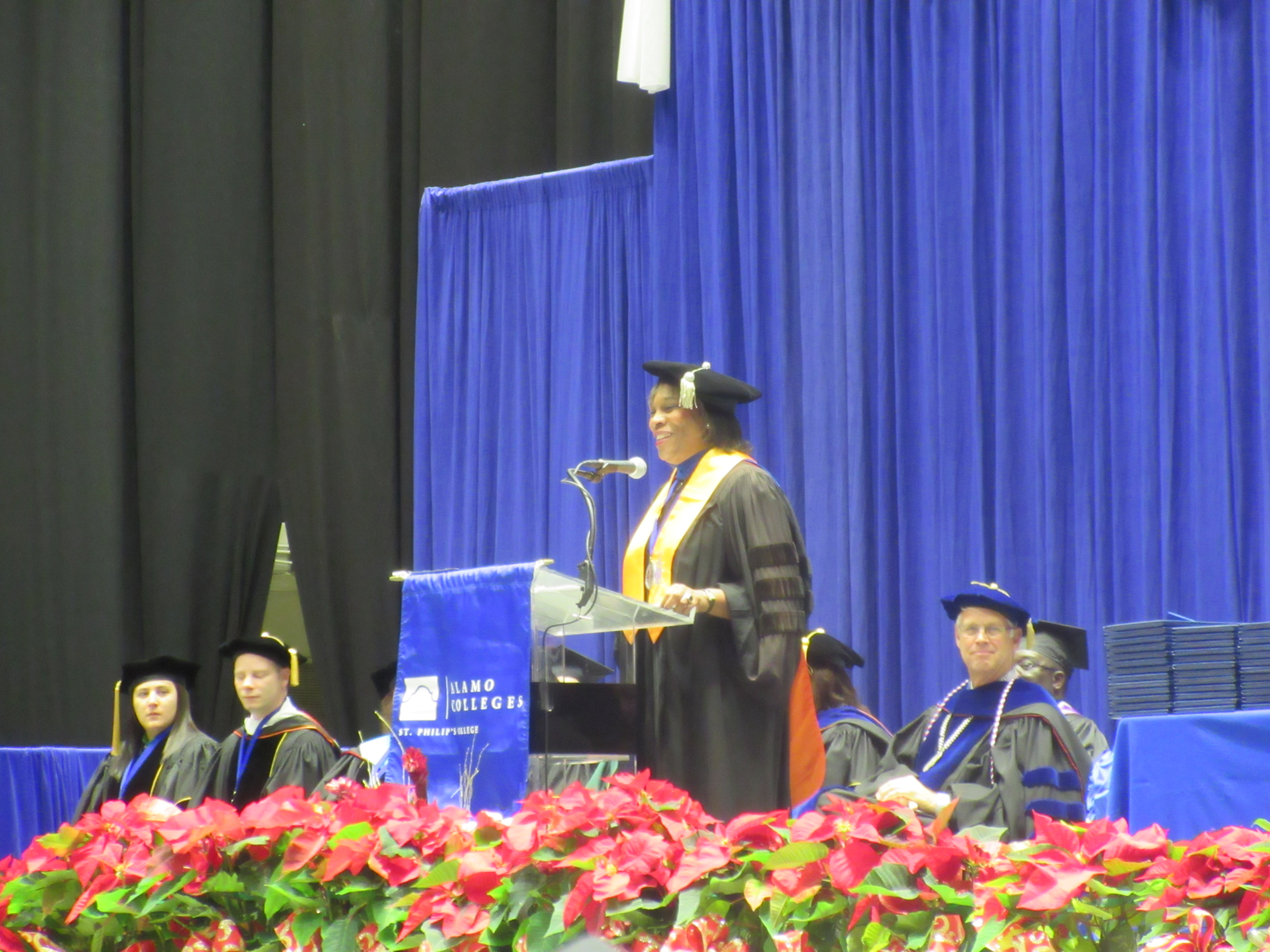 Dr. Adena Williams Loston at the St. Philip's College 134th Commencement Ceremony at the Freeman Coliseum in San Antonio, Texas on December 11, 2015.